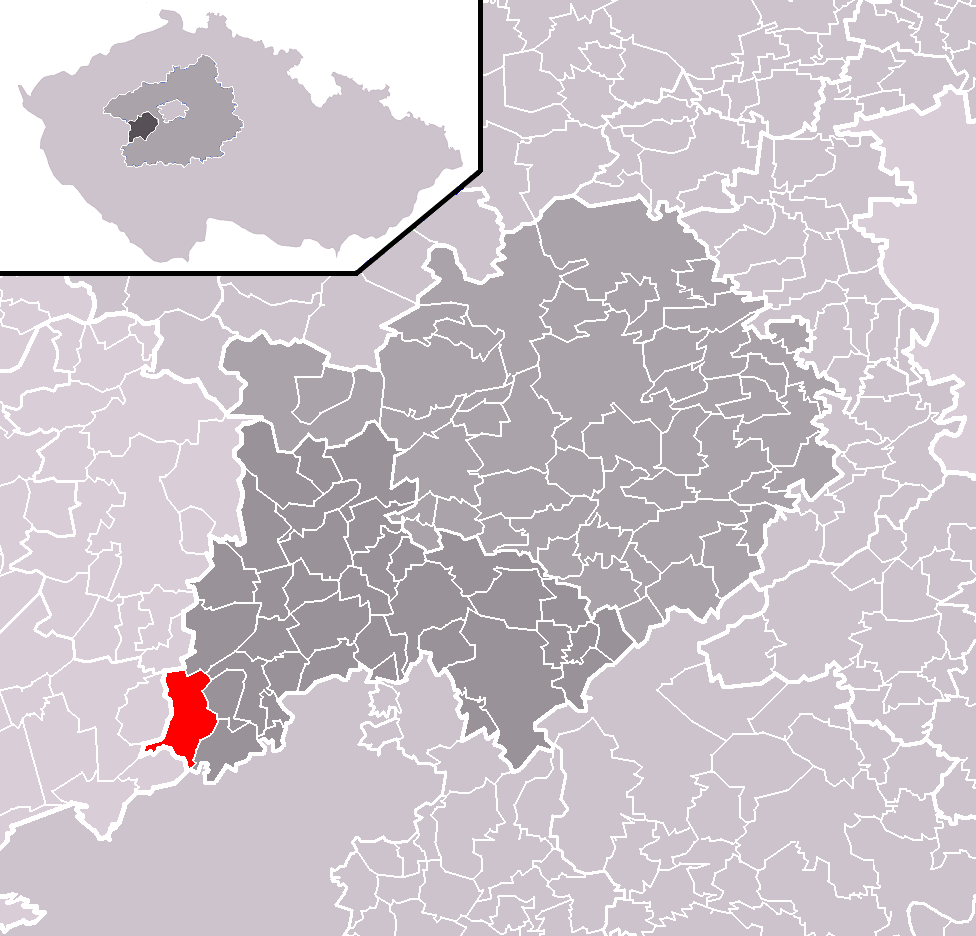 Location of Olešná municipality within Beroun District and administrative area of Hořovice as a Municipality with Extended Competence.